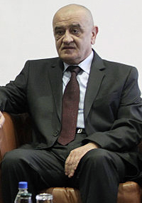 President of the Council of Ministers of Bosnia and Herzegovina Vjekoslav BevandaHrvatski: Predsjednik Vijeća ministara Bosne i Hercegovine Vjekoslav BevandaСрпски (ћирилица): Предсједавајући Савјета министара Босне и Херцеговине Вјекослав Беванда